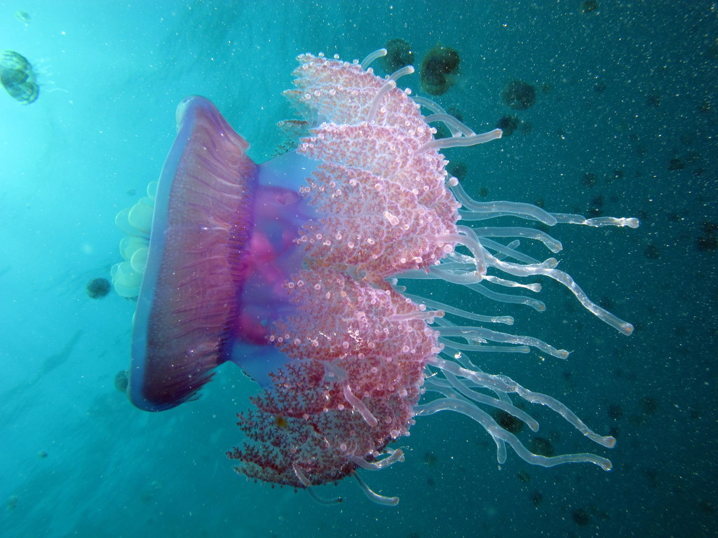 The water is full of Cauliflour Jellyfish, Cephea cephea at Marsa Shouna, Red Sea, Egypt #SCUBA